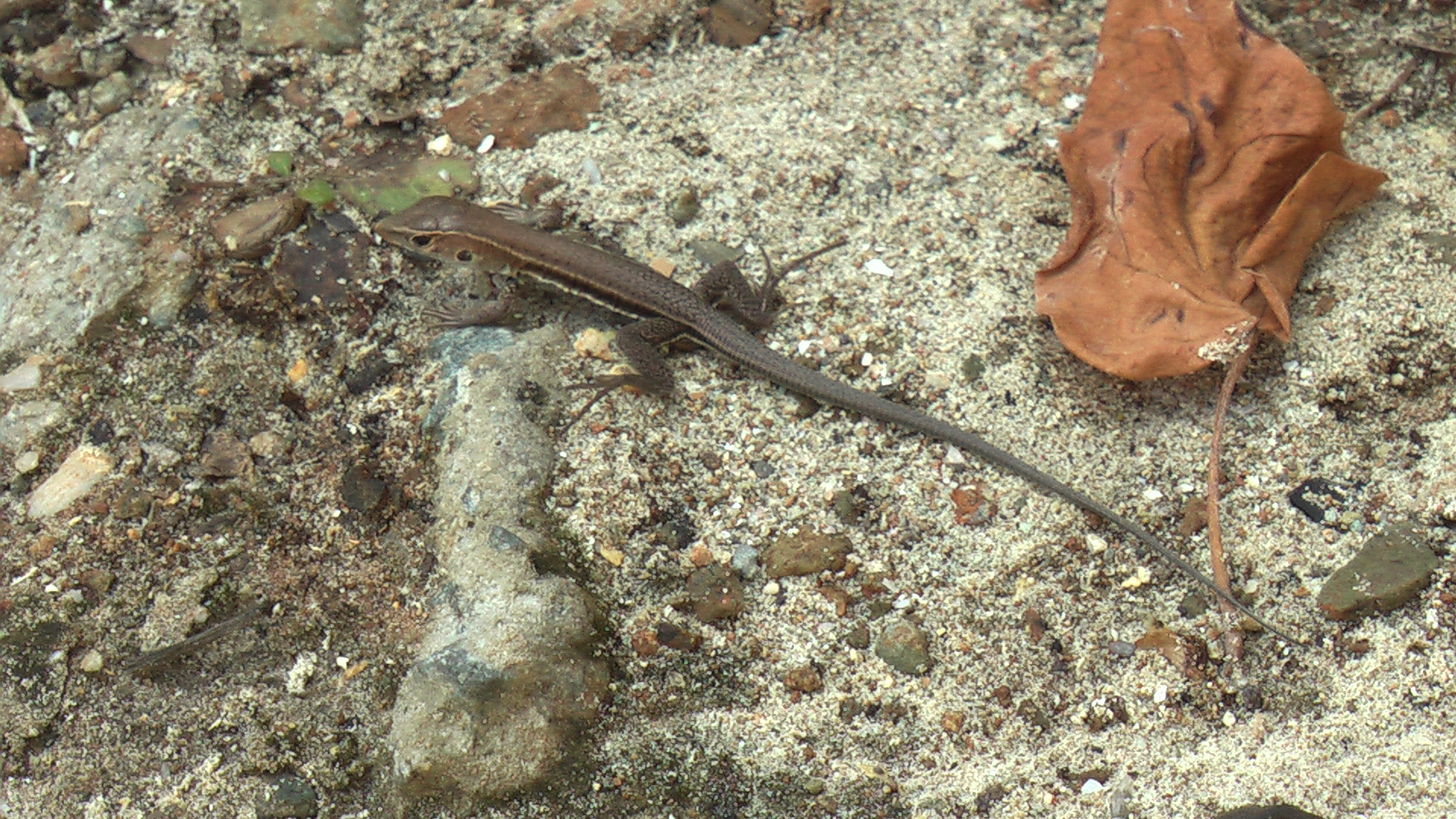 Saint Croix ground lizard (Ameiva polops) Photographed in Nelson's Dockyard, Antigua